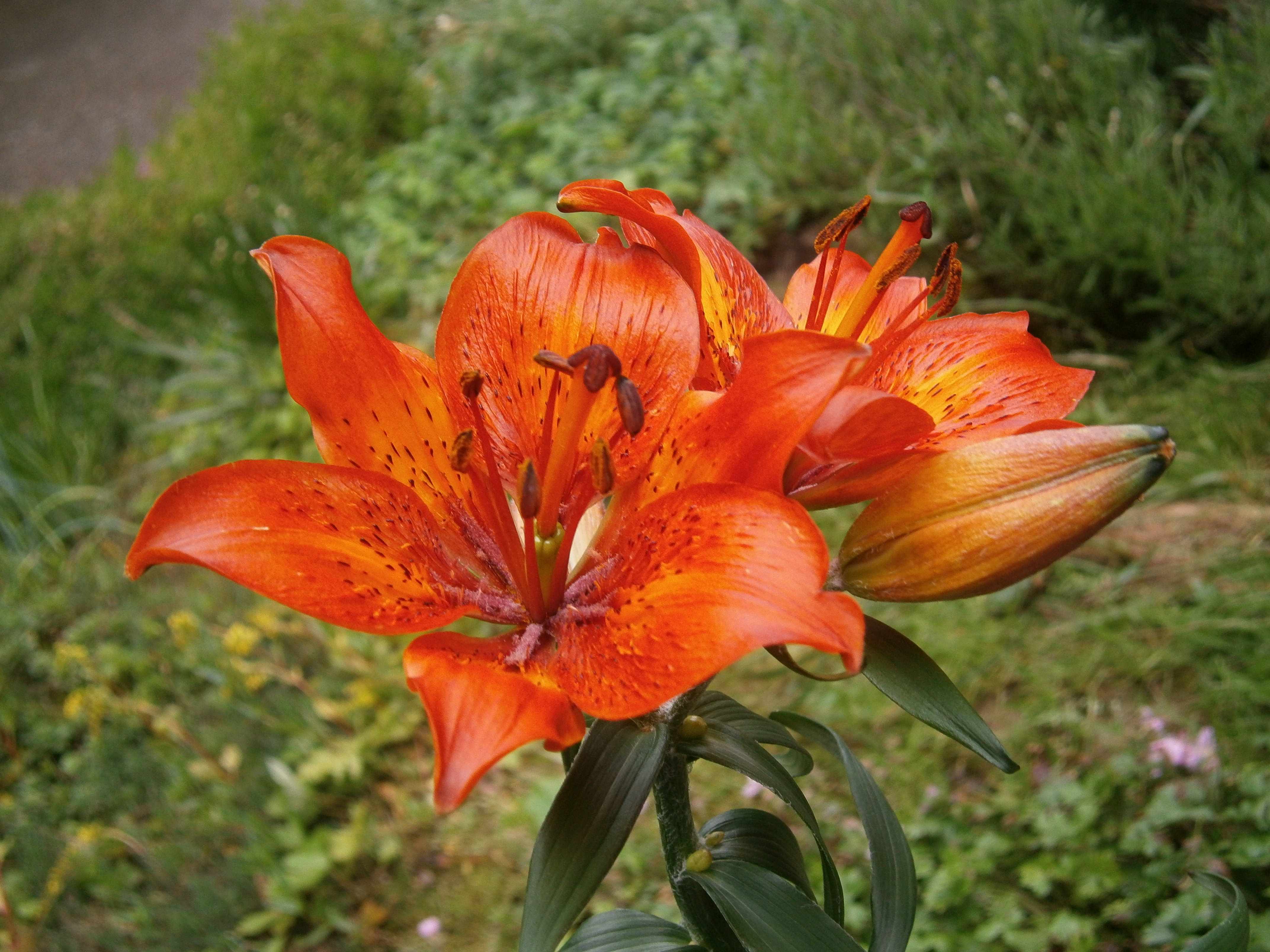 Lilium bulbiferum flowers and bulblets